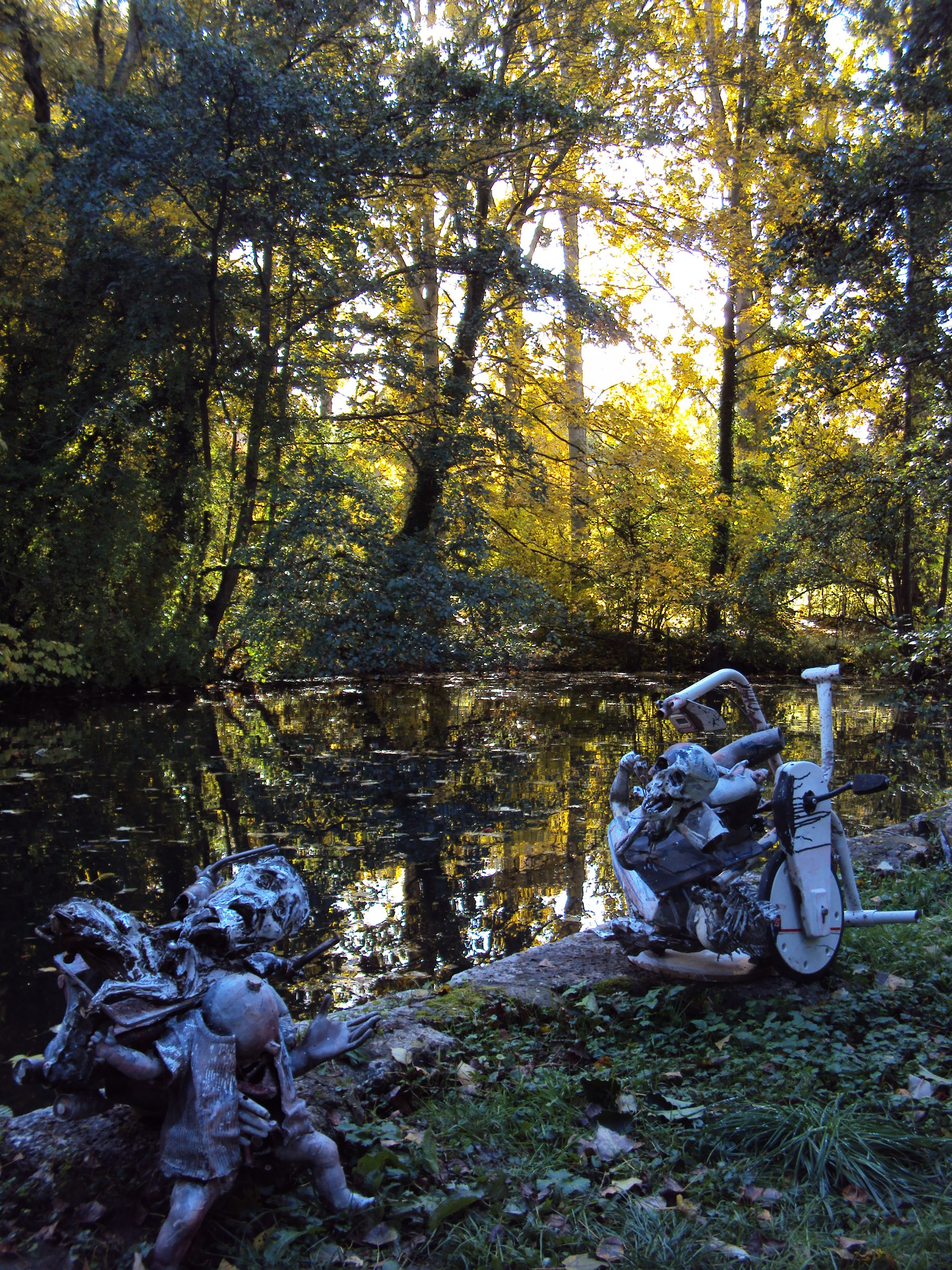 Installation temporaire de sculptures de Dado Miodrag Djuric à Hérouval